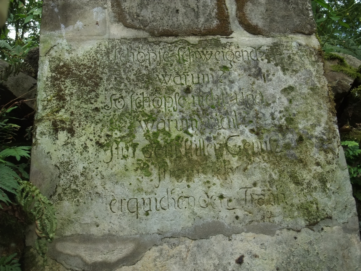 inscription of well "Schöpfe schweigend" ("bail silently") in the Seifersdorf Valley, Saxony